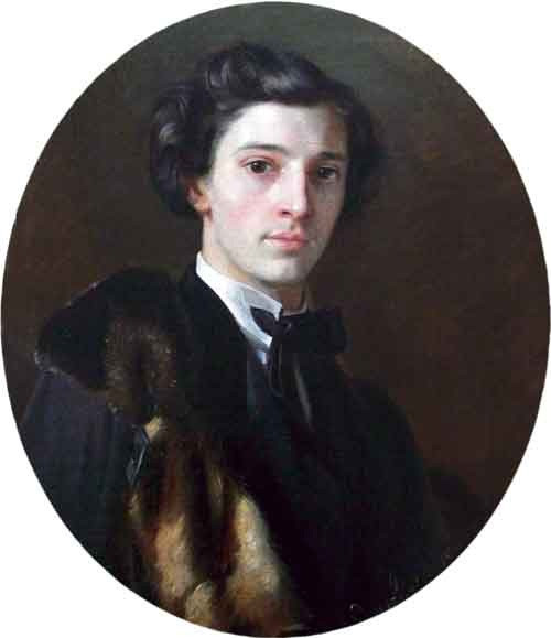 Portrait of painter and sculptor Mikhail Osipovich Mikeshin